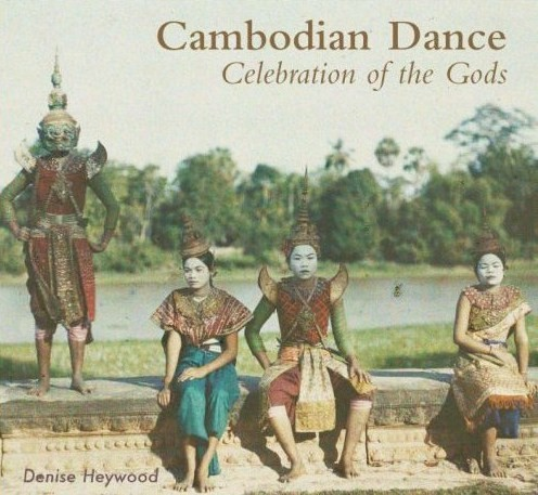 Cover of Denise Heywood, featuring an autochrome commissioned by Albert Kahn from French Indochina, described as "Edge of the moat of Angkor Wat temples in Siem Reap region", dated 1918-1921